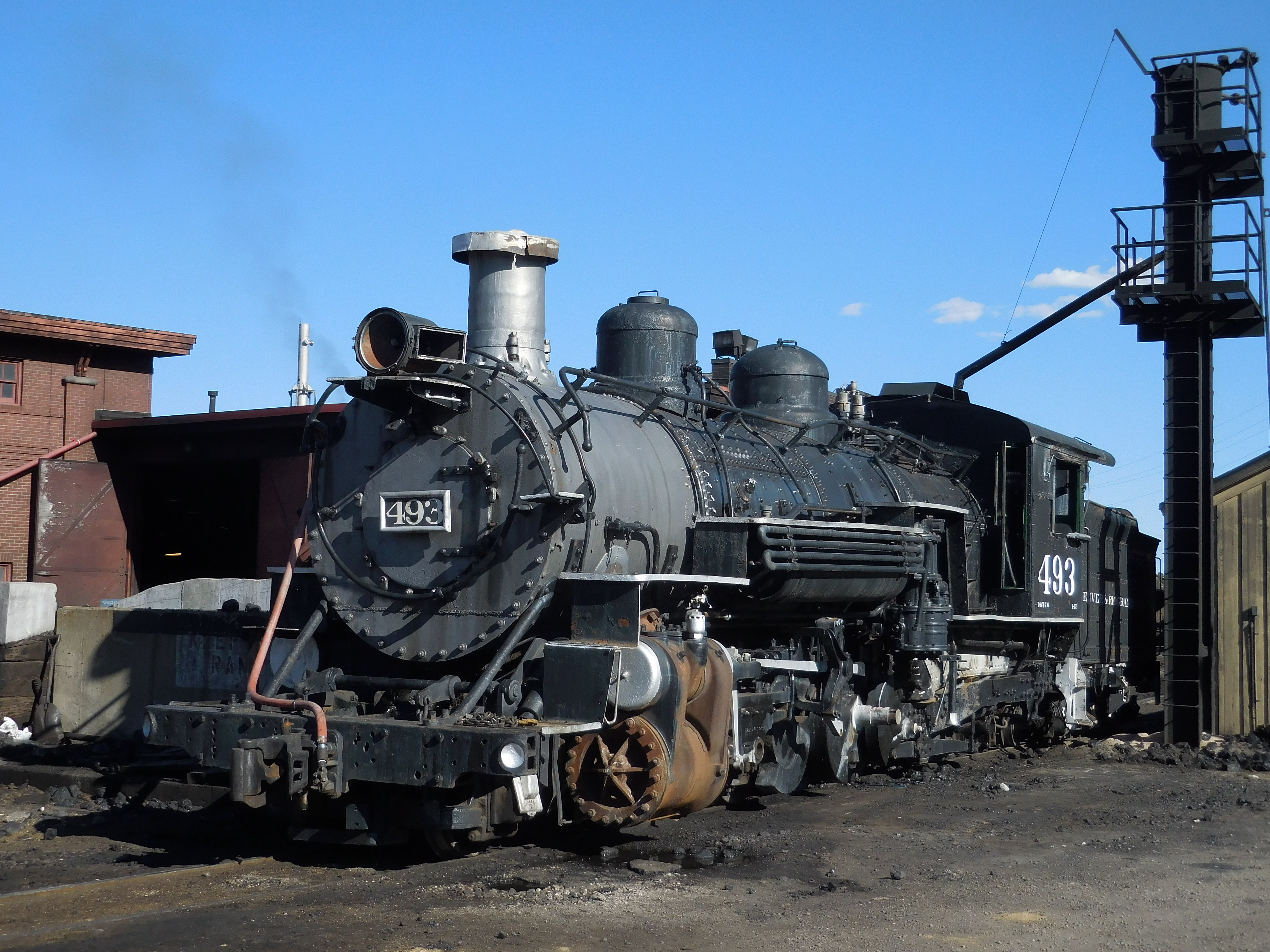 493 in the Durango yard on the May 4th, 2016 move from Silverton to Durango.